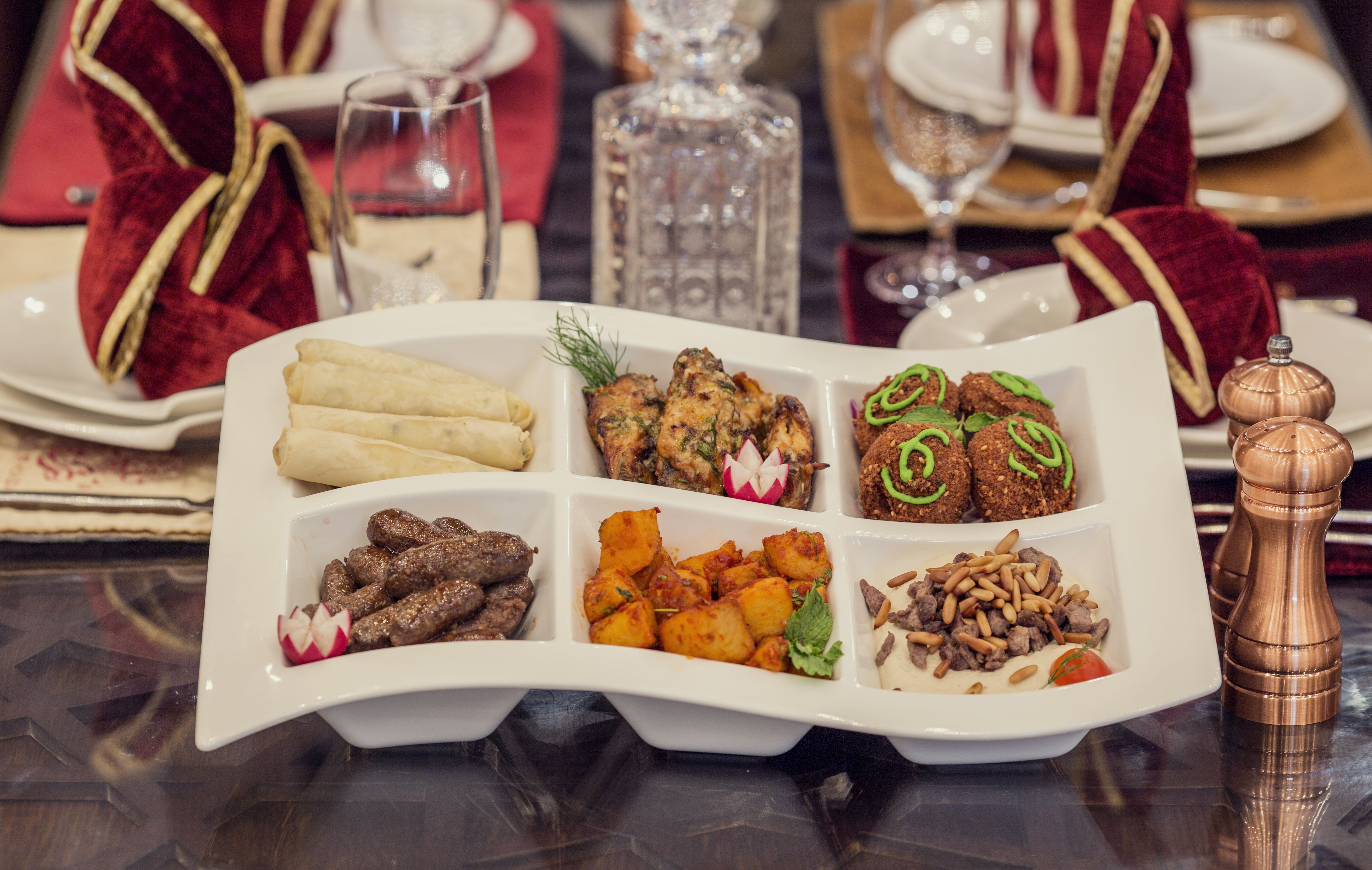 Sausage Samossa Cold Appetizer Arabic Appetizer